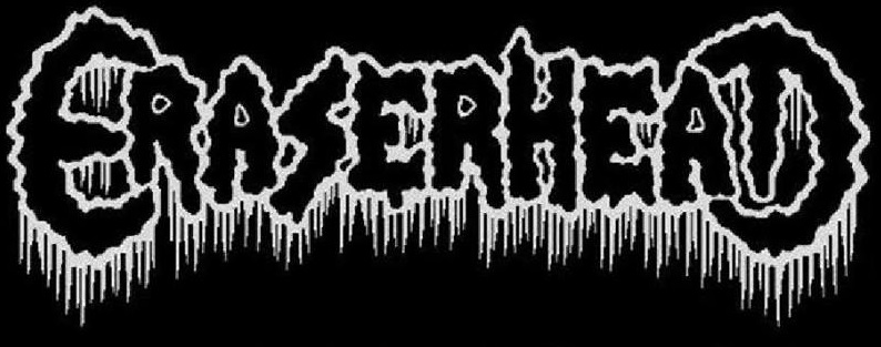 Eraserhead Logo old